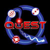 Logo for the DARPA QuEST Quantum Entanglement Science and Technology (2008-2012)